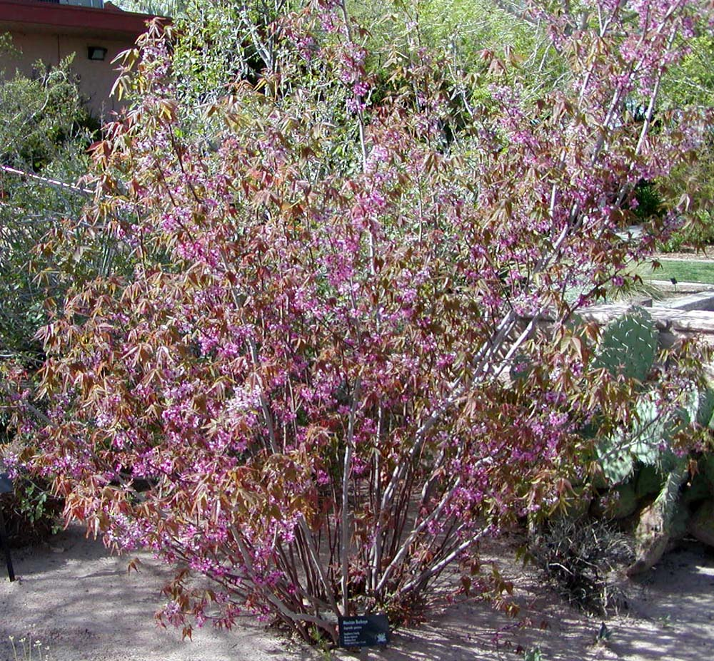 Photo of Ungnadia speciosa (Mexican buckeye) shrub at the Desert Demonstration Garden in Las Vegas